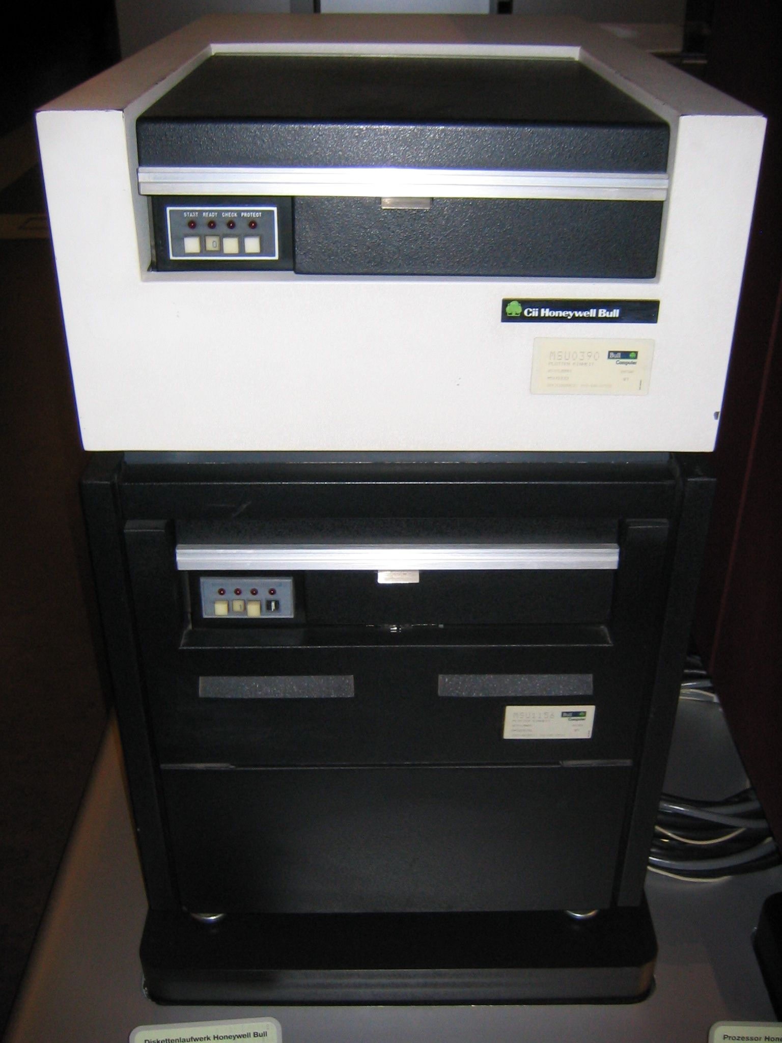 Honeywell Bull External Storage Unit as exhibited in the Vienna Technical Museum. Capacity: [...please add here if you know...] Year of Construction: [...please add here if you know...]